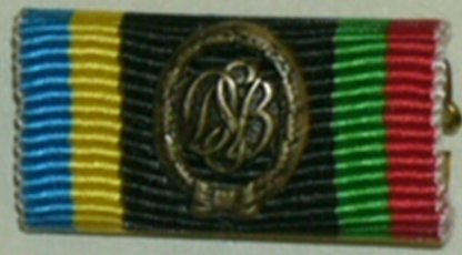 Brass medal of achievments in mass sports, issued by the German Sports Association